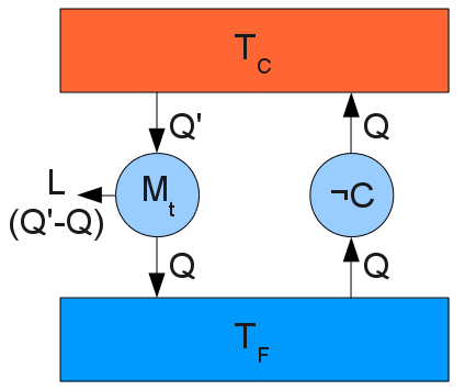 Reductio ad absurdum demonstration of the equivalence between Clausius and Kelvin statements (Second law of thermodynamics)